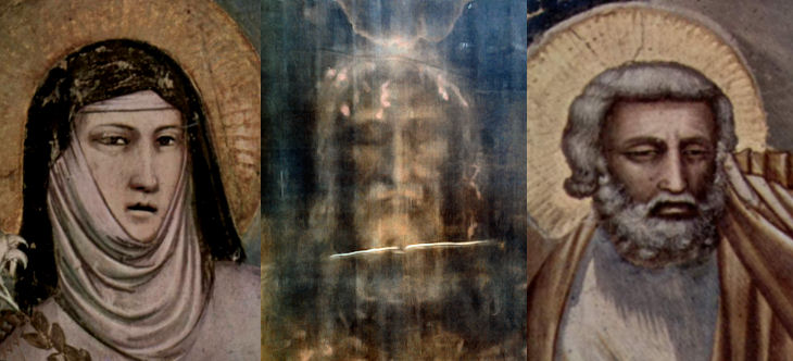 Comparison of the face hidden in the Shroud of Turin with paintings by Giotto di Bondone, a painter active at the time the Shroud first surfaced in Western Europe